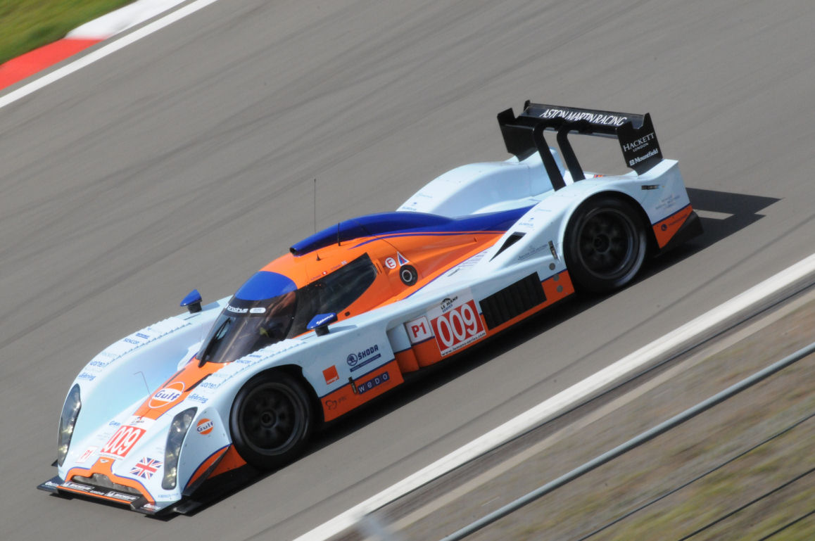 Darren Turner in a Gulf Aston Martin during qualifying for the 1000km race at the Nurburgring, 2009.